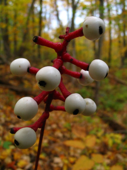 Actaea pachypoda, a highly poisonous plant with striking white berries. Also known as 'white baneberry'. Photo taken by Robert E. Wright near Holderness, New Hampshire on October 23, 2005.